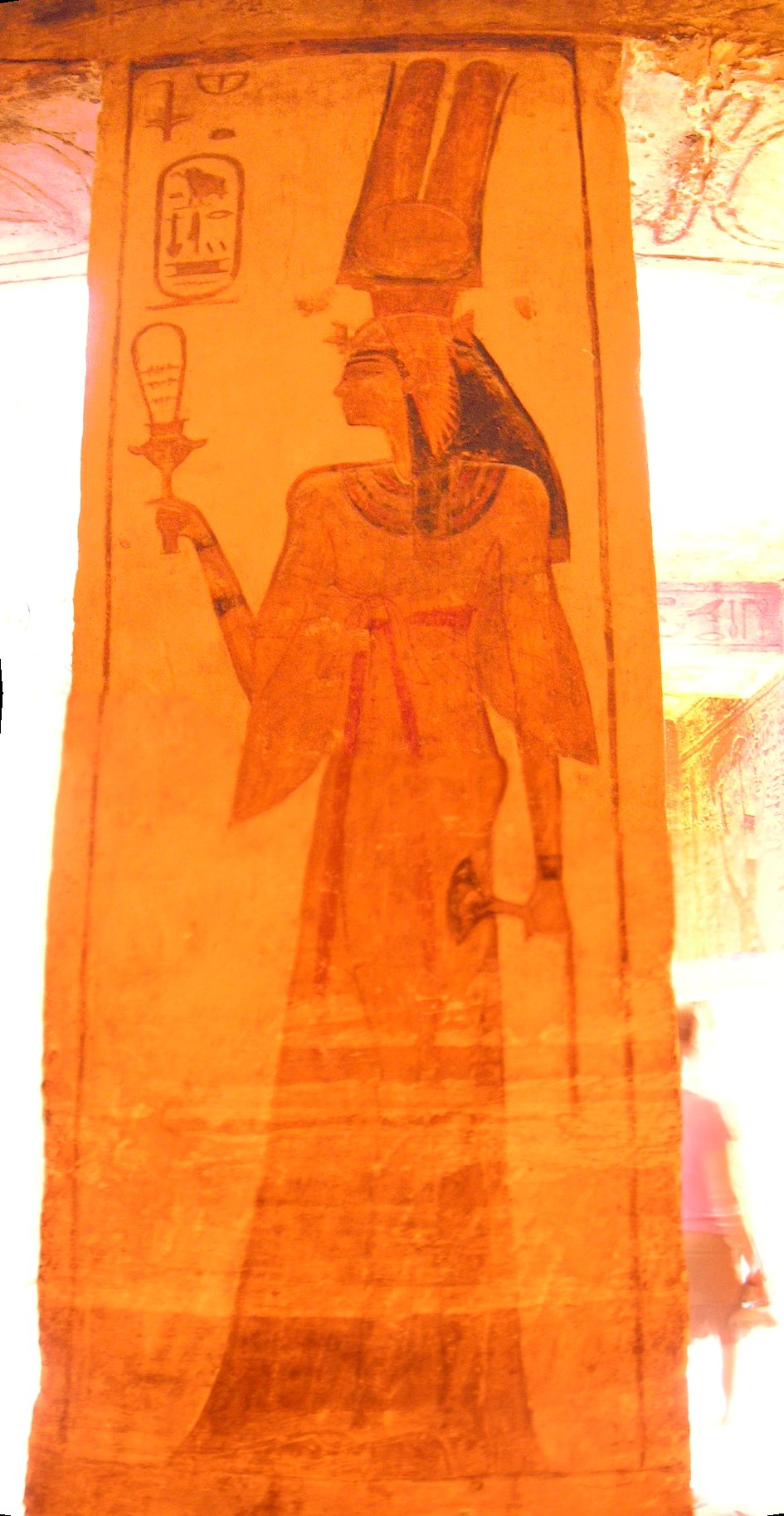 A picture of Nefertari taken in her Abou Simbel temple. Made by Gilles Renault, who gave the permission to use it in Wikipedia.